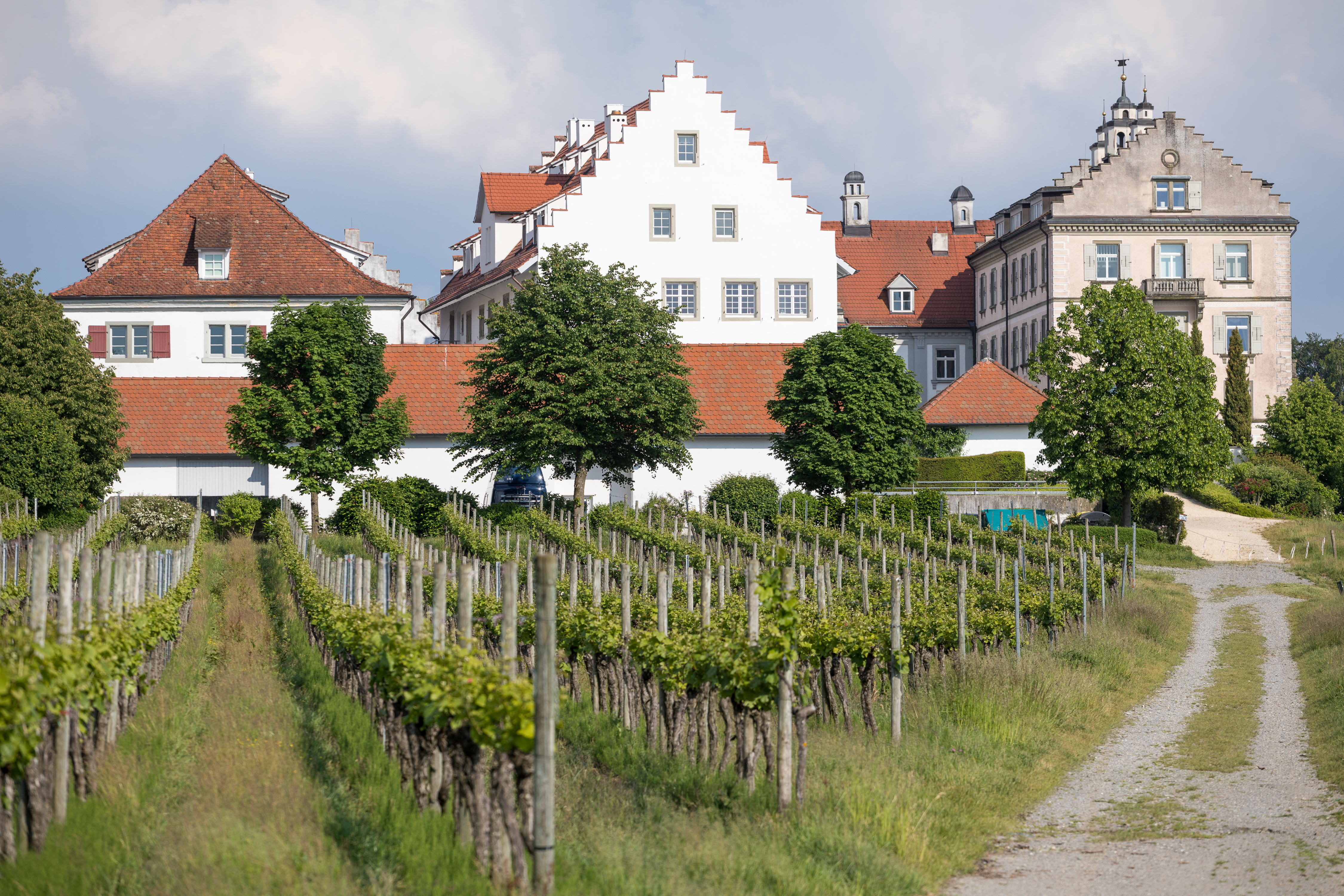 Kirchberg Castle in Immenstaad at Lake Constance, Germany.